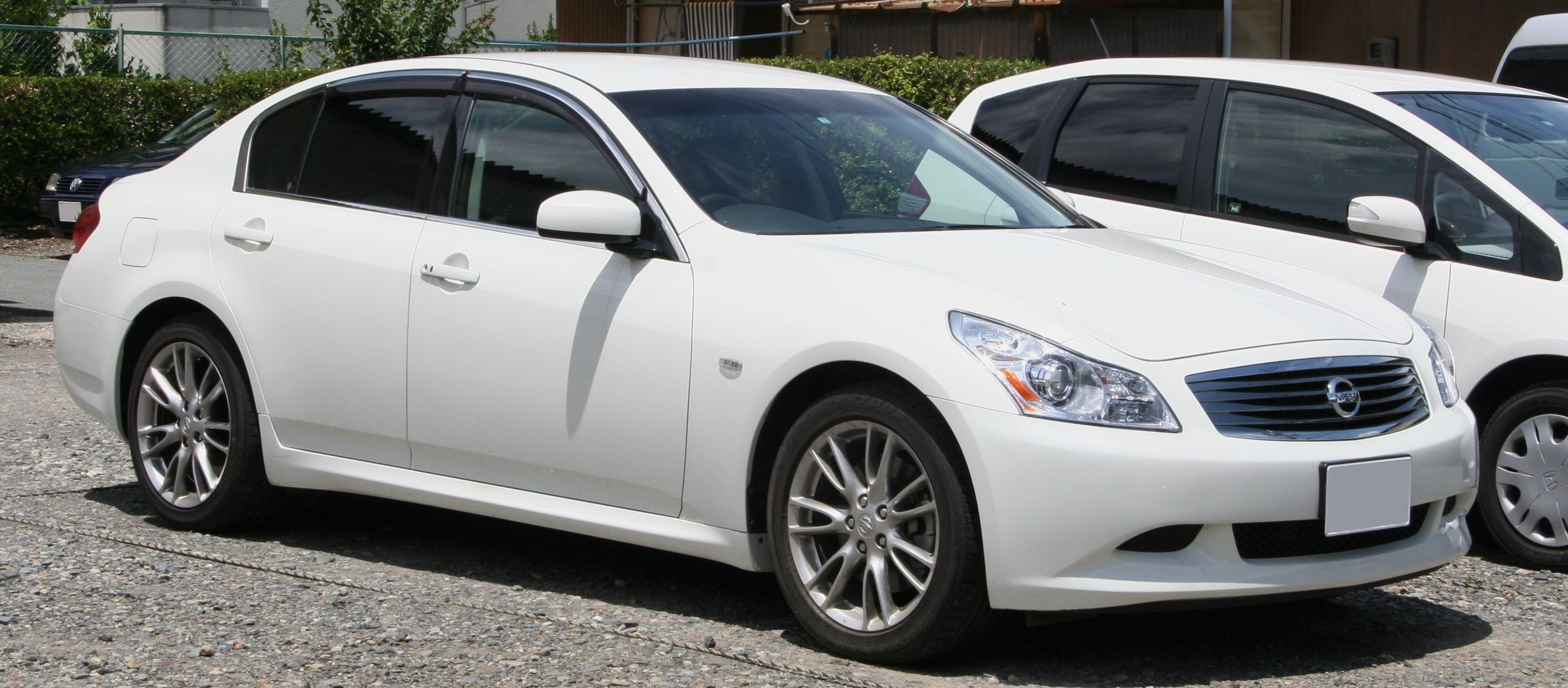 NISSAN SKYLINE